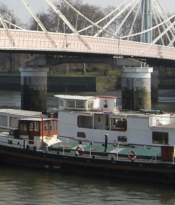 Concrete central piers under the Albert Bridge, London, United Kingdom.